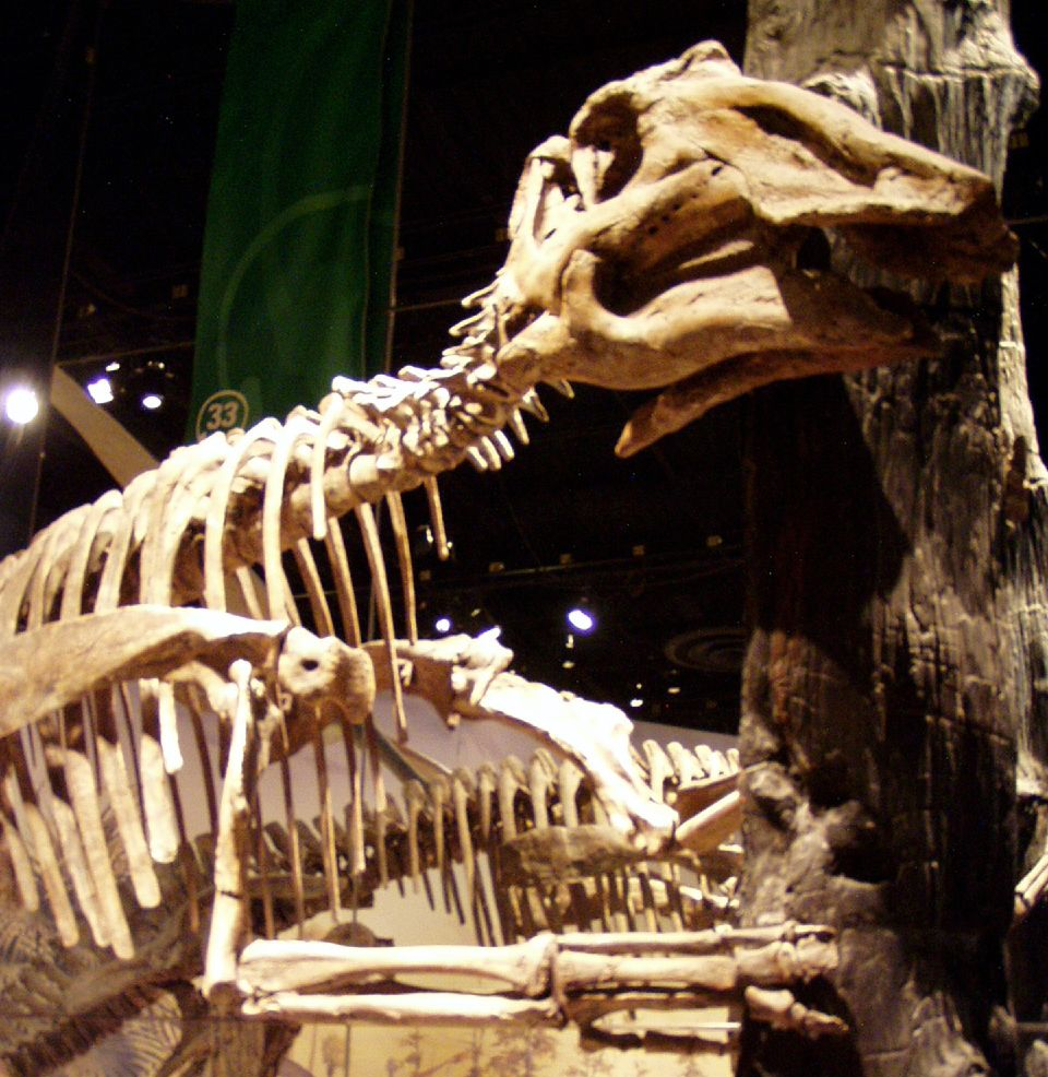 Prosaurolophus, Royal Tyrrell Museum.